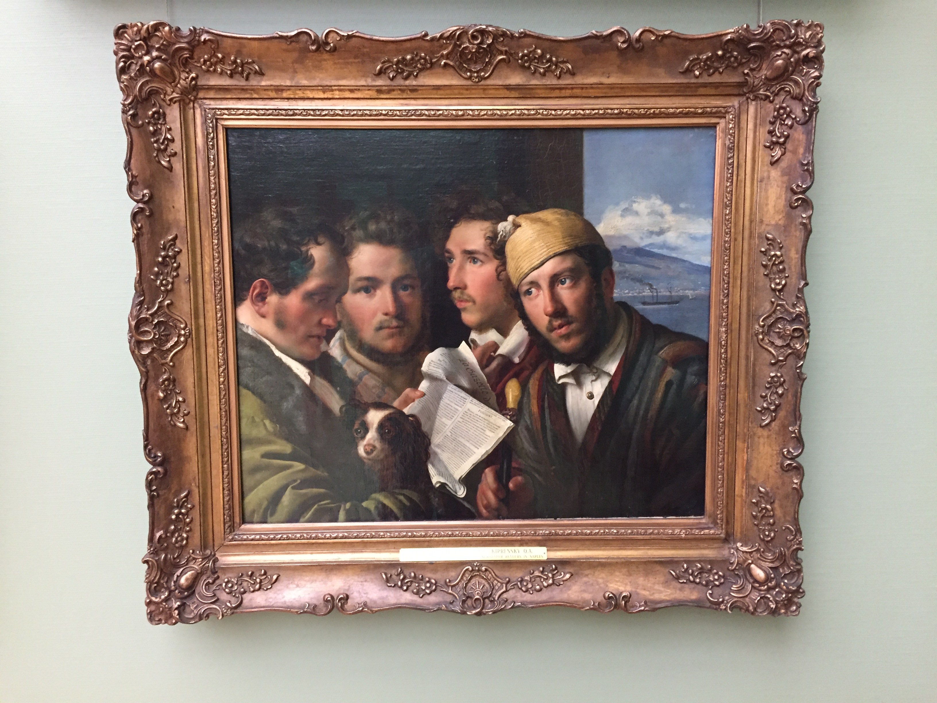 Gazette readers in Naples (painting by Orest Kiprensky, 1831) in the State Tretyakov Gallery